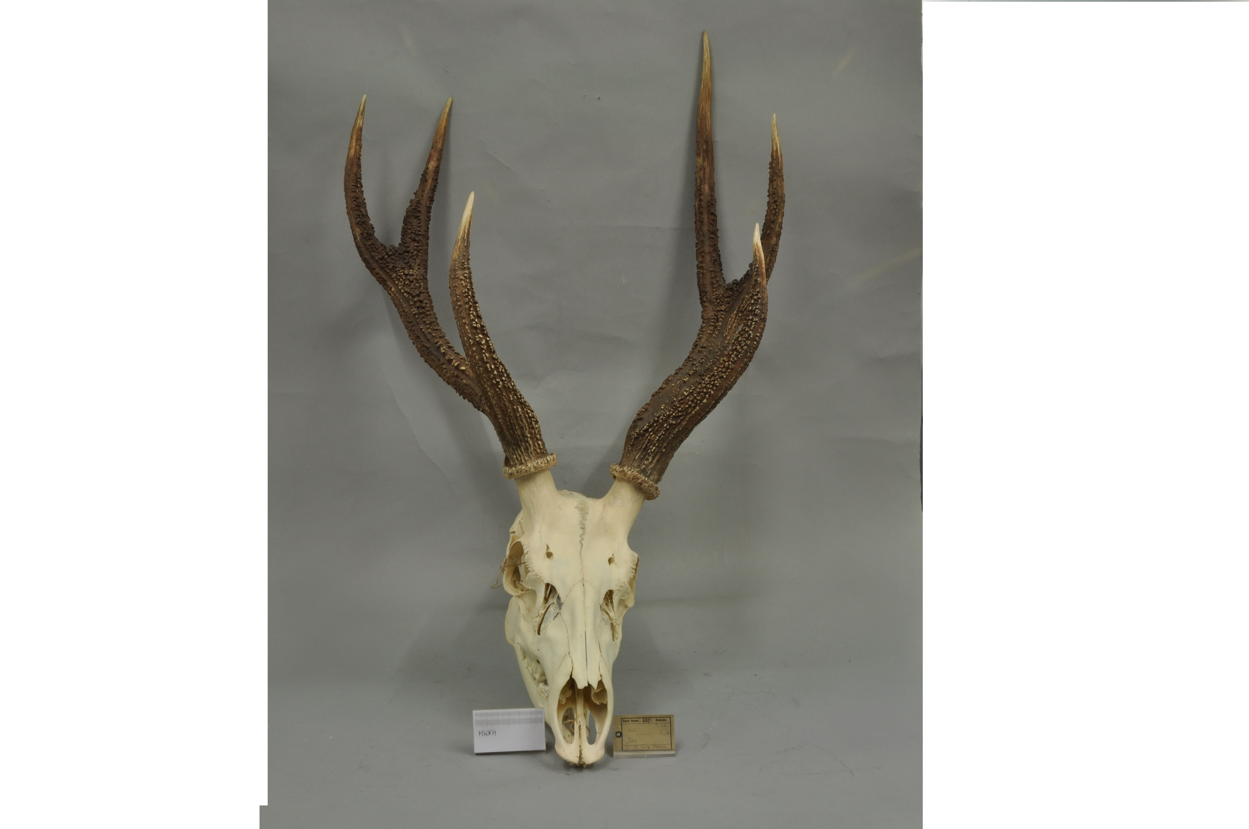 white-tailed deer , skull, Coll. Museum Wiesbaden